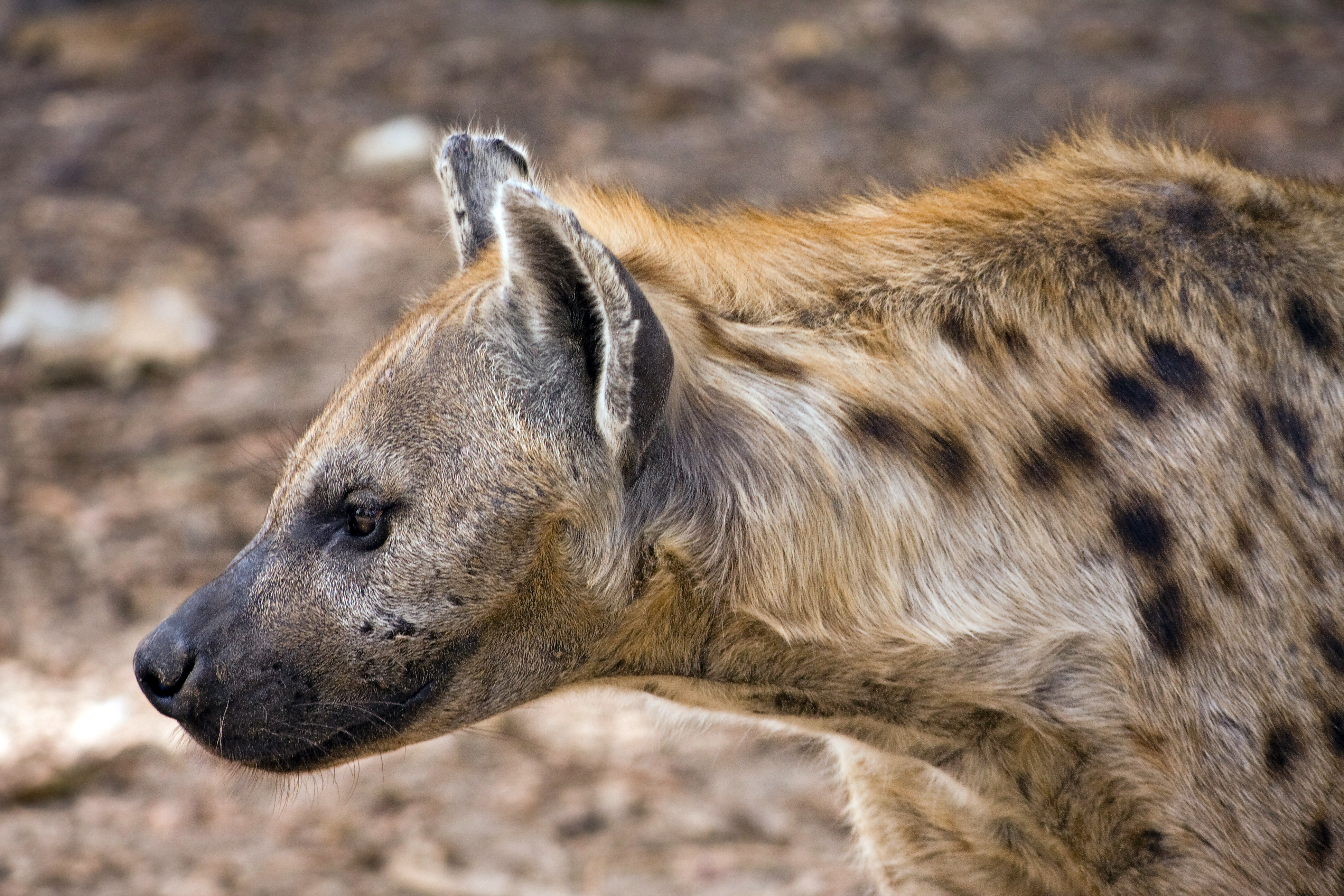 Spotted Hyena (Crocuta crocuta) in the Abuko National Reserve in The Gambia